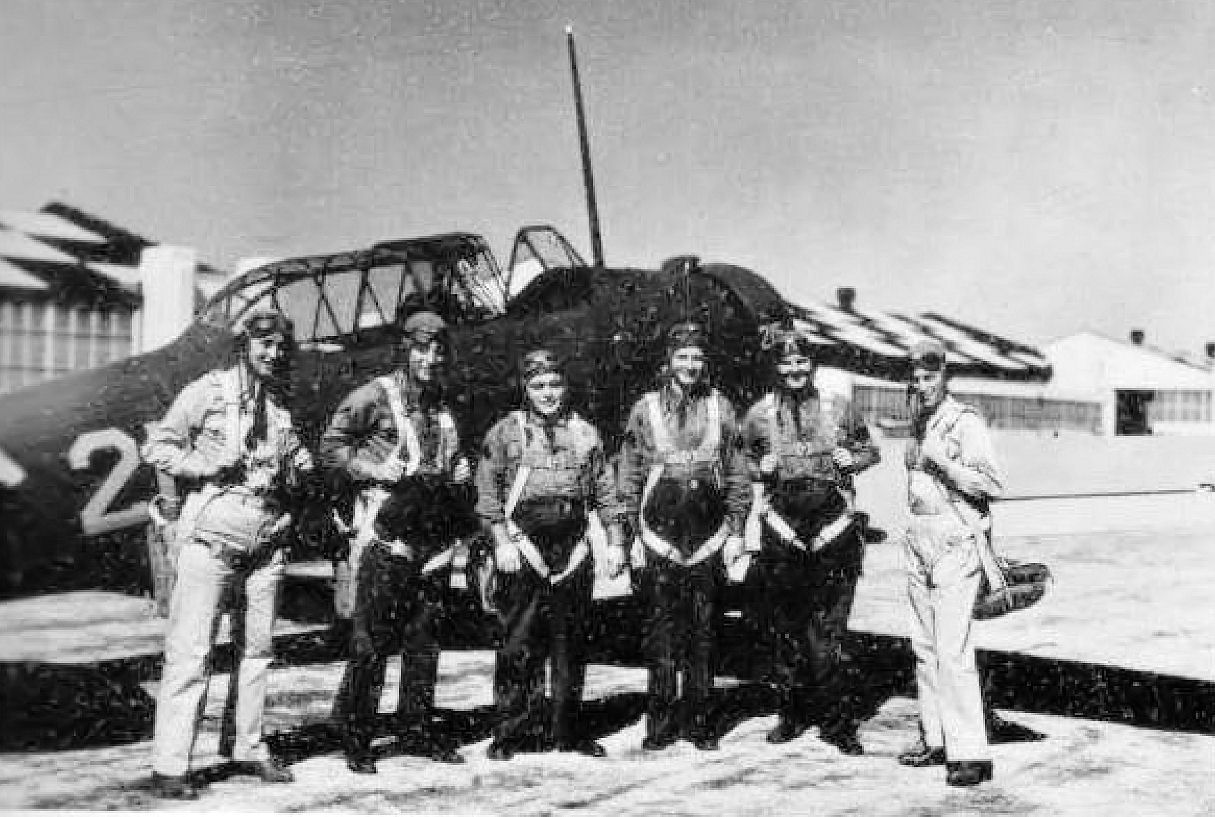 Randolph Field - 1938 - Flying Cadets with Instructor in front of North American BT-9